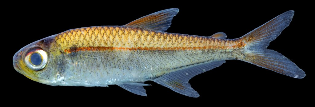 Hemigrammus elegans GUY14-29 22mm